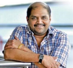 Photo of Composer Vidyasagar